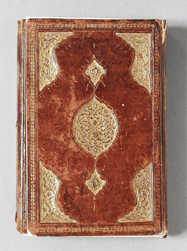 Iran, September 3, 1488/26 Ramadan 893 A.H., with later Turkish binding Manuscripts Ink and opaque watercolor on paper 6 1/4 x 4 in. (15.88 x 10.16 cm) Bequest of Edwin Binney, 3rd, Turkish Collection (AC1995.124.4) Islamic Art